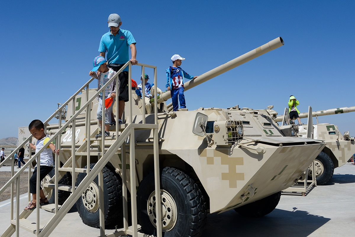 PLL-05 self-propelled gun-mortar.